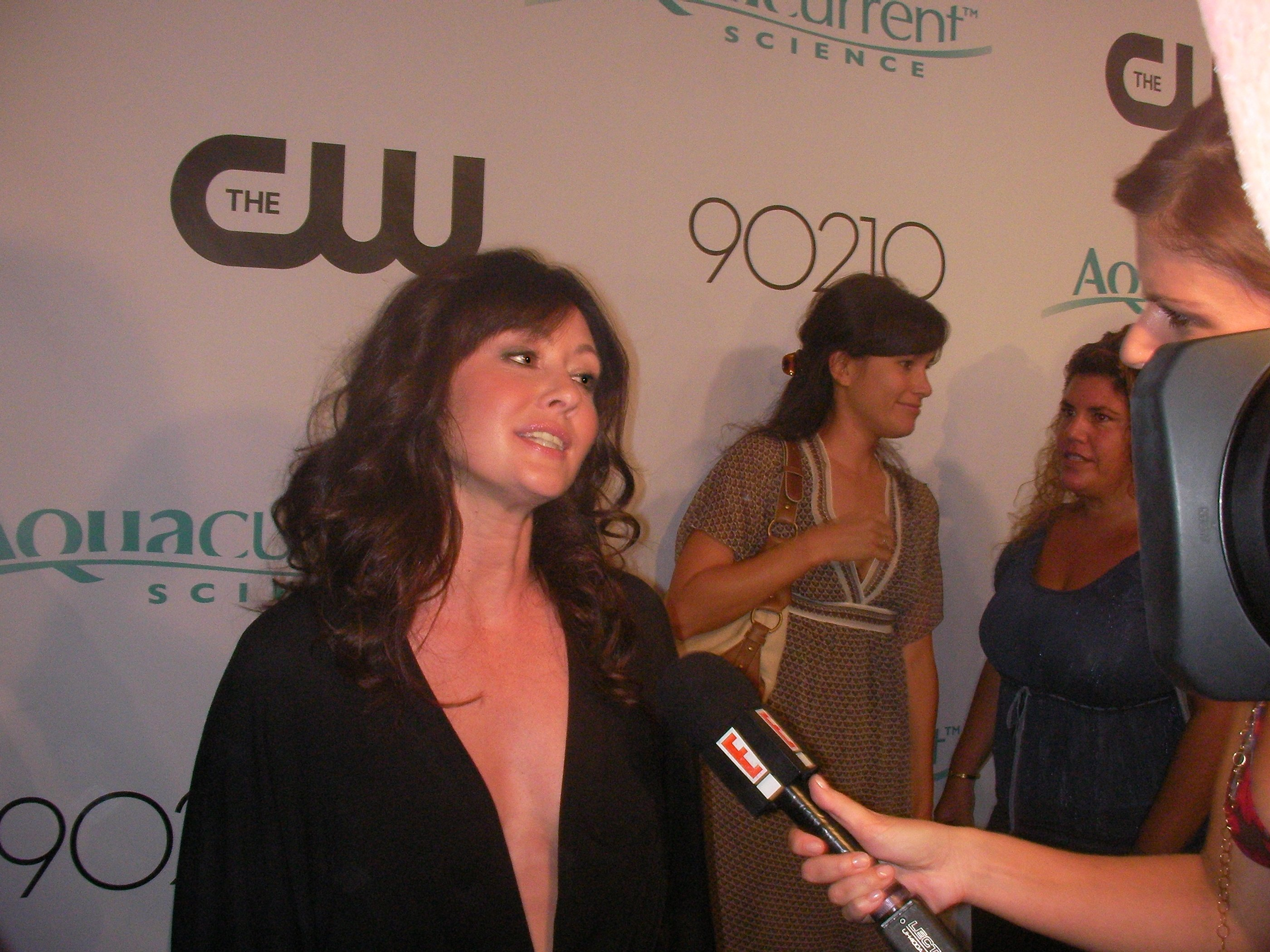 Shannen Doherty